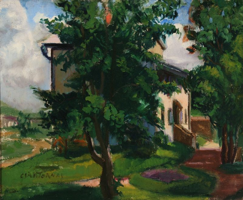 Baia Mare House